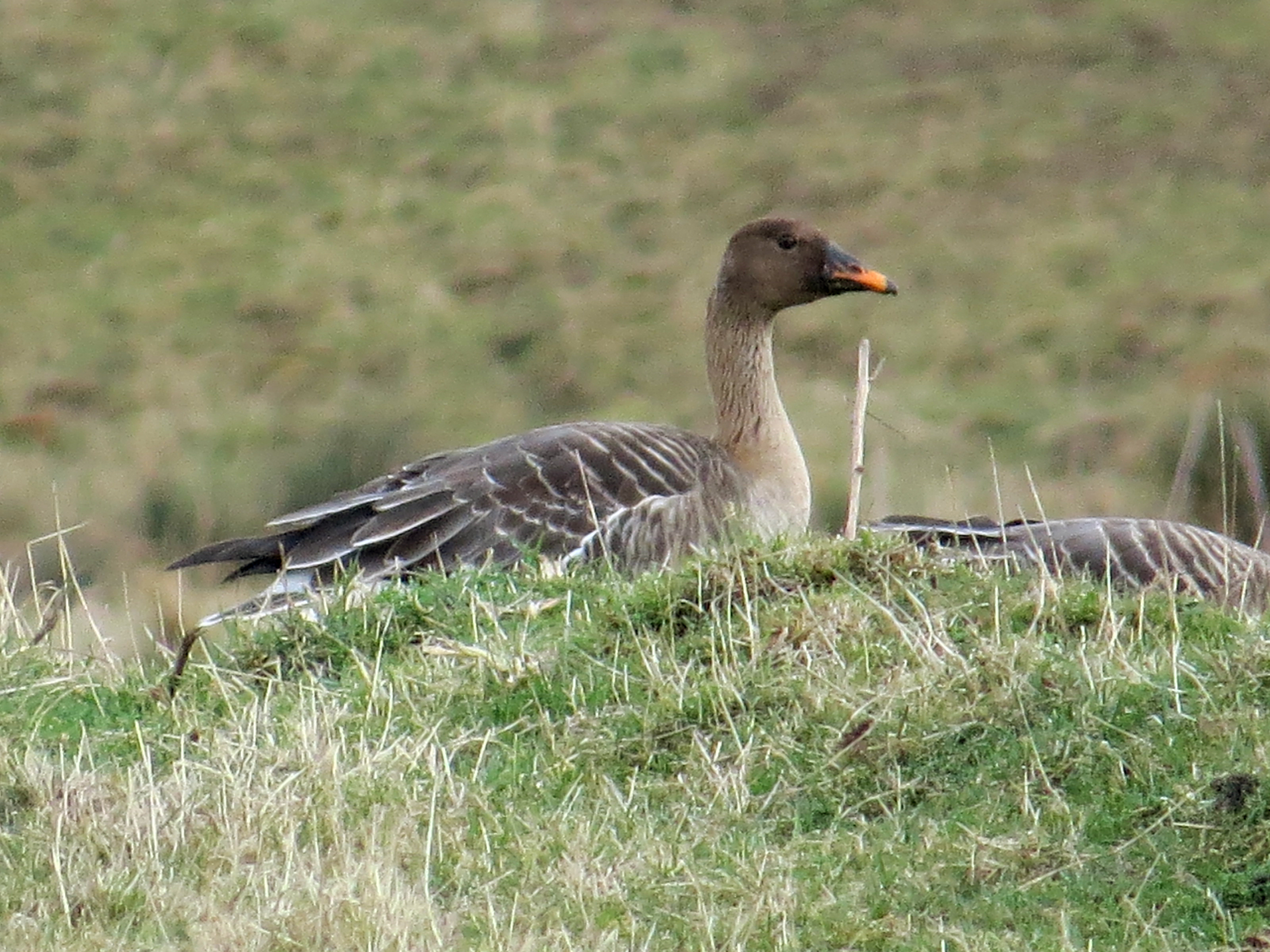 Taiga Bean Goose Anser fabalis fabalis, RSPB Saltholme, Co Durham, UK.